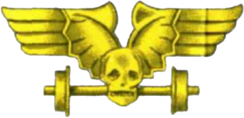 Uniform collar tab of the Armored Train Regiment (1936).